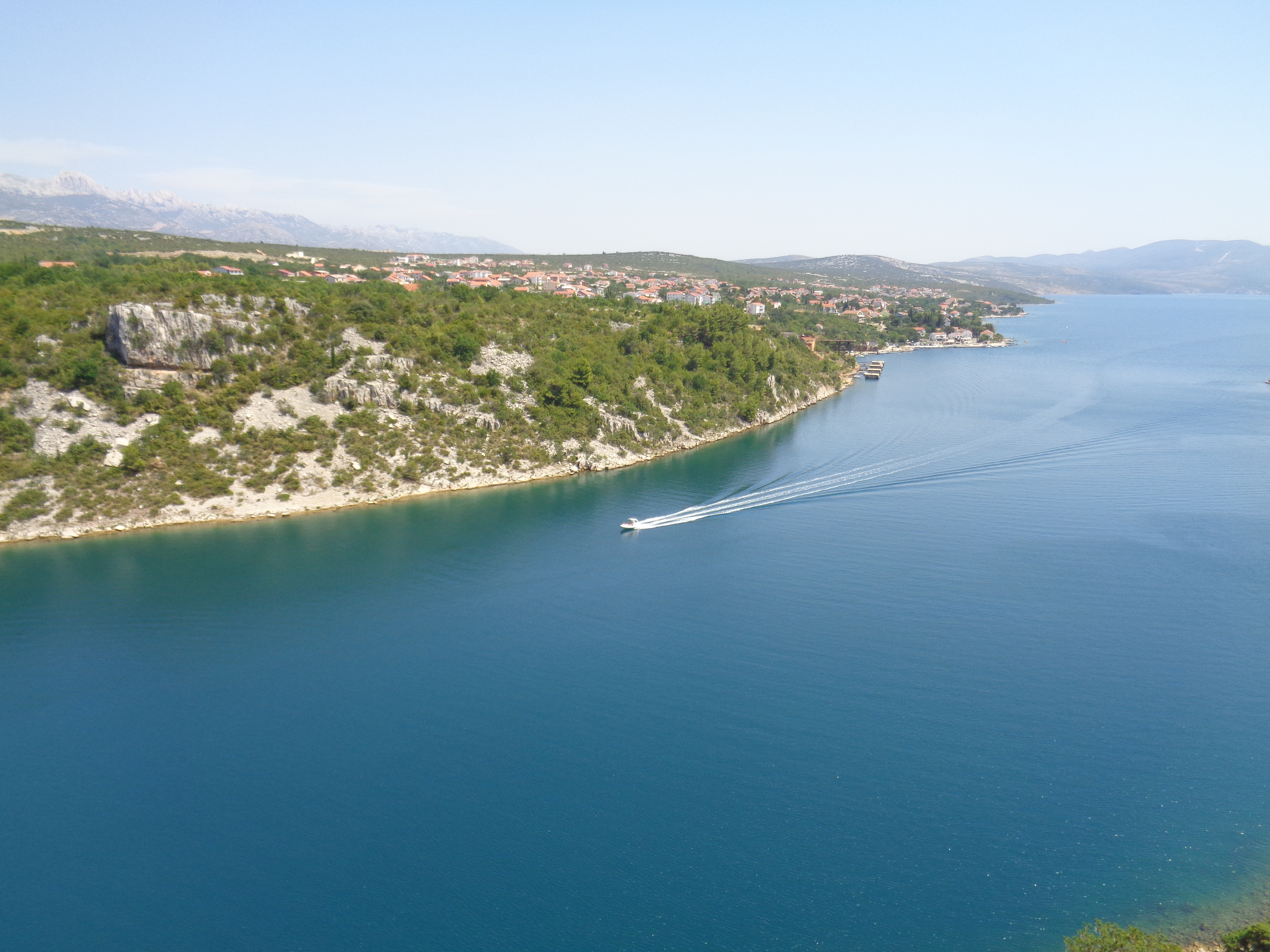 View from the "Old" Maslenica Bridge over the strait of Novsko ždrilo by Novigrad in Dalmatia, Croatia